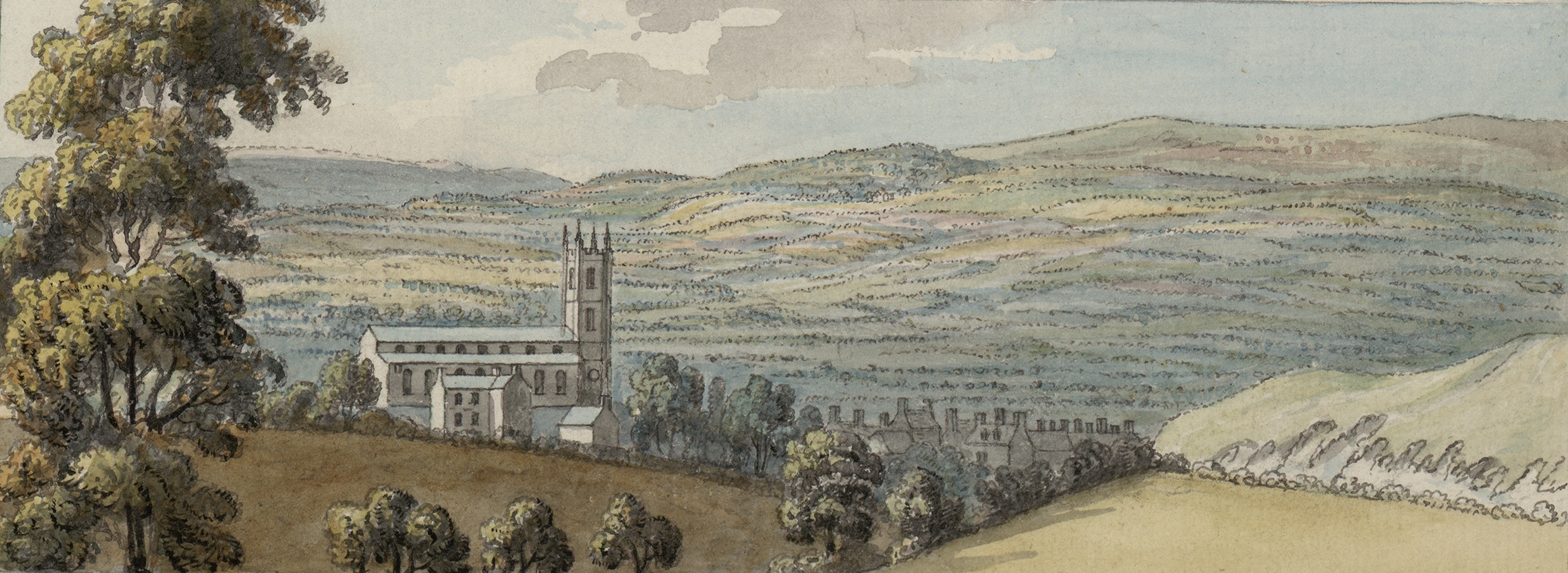 An image from a set of 8 extra-illustrated volumes of A tour in Wales by Thomas Pennant (1726-1798) that chronicle the three journeys he made through Wales between 1773 and 1776. These volumes are unique because they were compiled for Pennant's own library at Downing. This edition was produced in 1781. The volumes include a number of original drawings by Moses Griffiths, Ingleby and other well known artists of the period. Thomas Pennant (1726-1798)